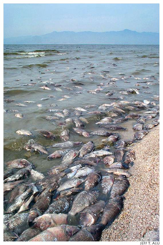 Dead Tilapia fish along the banks of the Salton Sea This Image was taken by Jeff T. Alu at the Salton Sea on 08/27/2000 AnimAlu 00:55, 21 Mar 2005 (UTC)